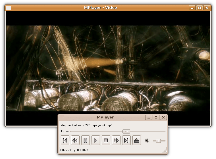 Screenshot of MPlayer, the video being played is "Elephants Dream".